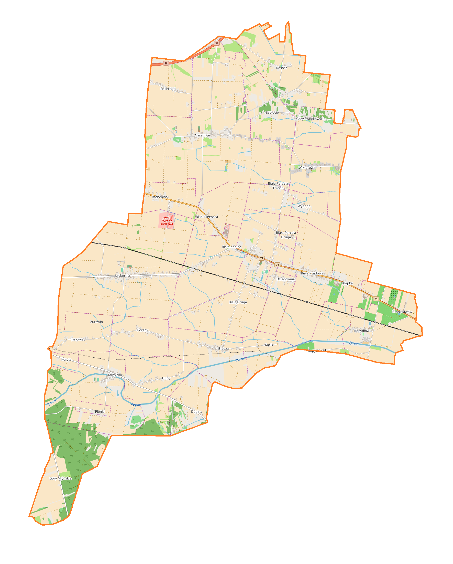 Location map